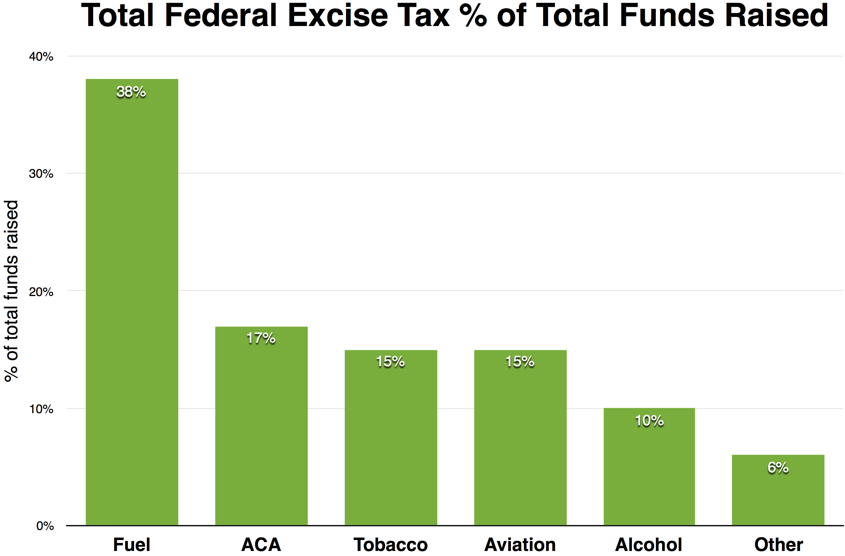 Excise taxes percentage 2015 $98.3 billion